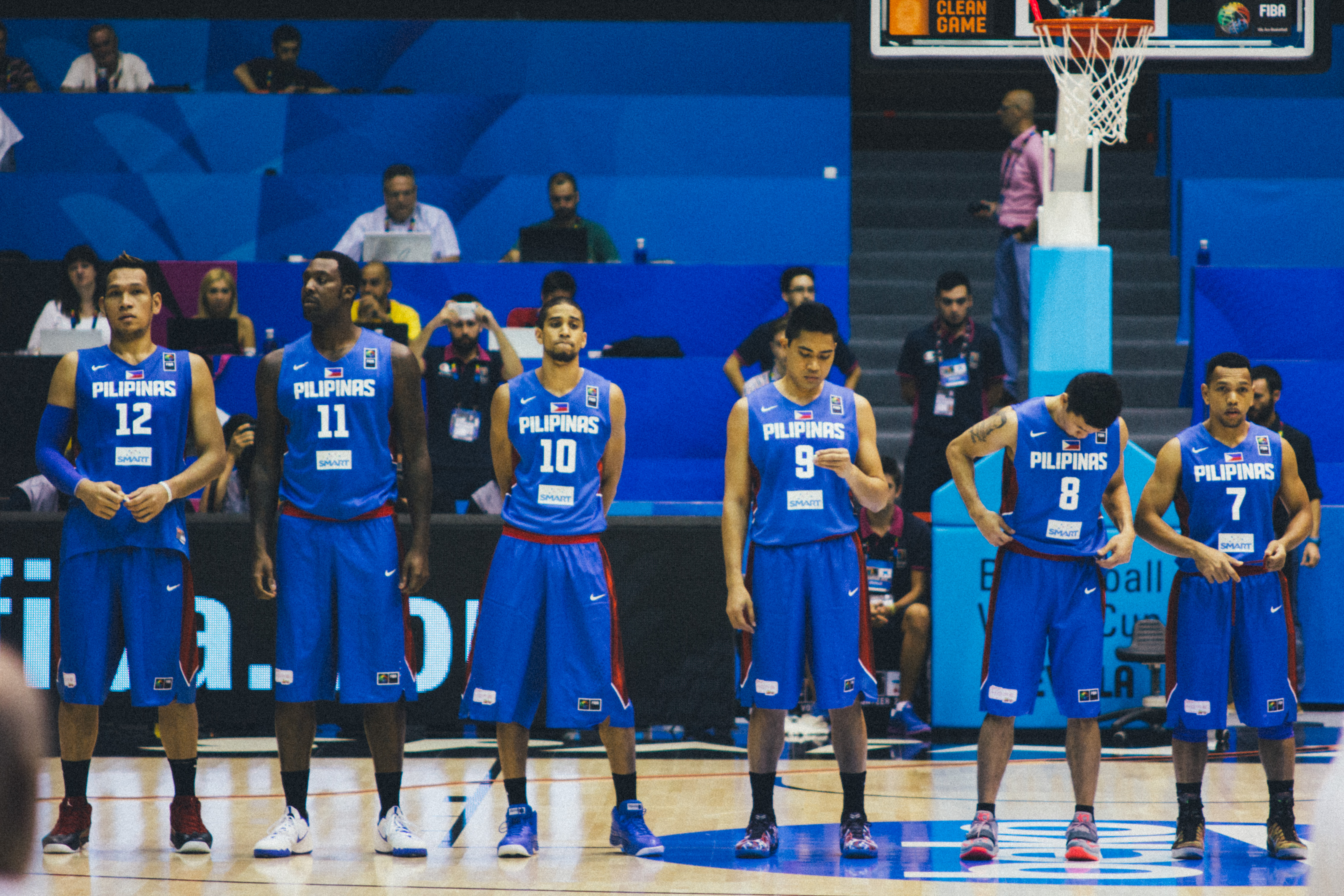 Gilas Pilipinas